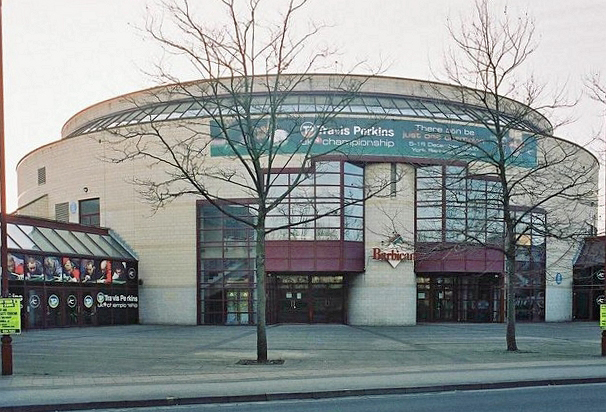 York: Barbican Centre Despite being due for demolition in 2005, the centre still held the UK Snooker Championship in Decembers 2005 and 2006 – though the event will not be there in December 2007, so perhaps the plans are now going to be carried out.